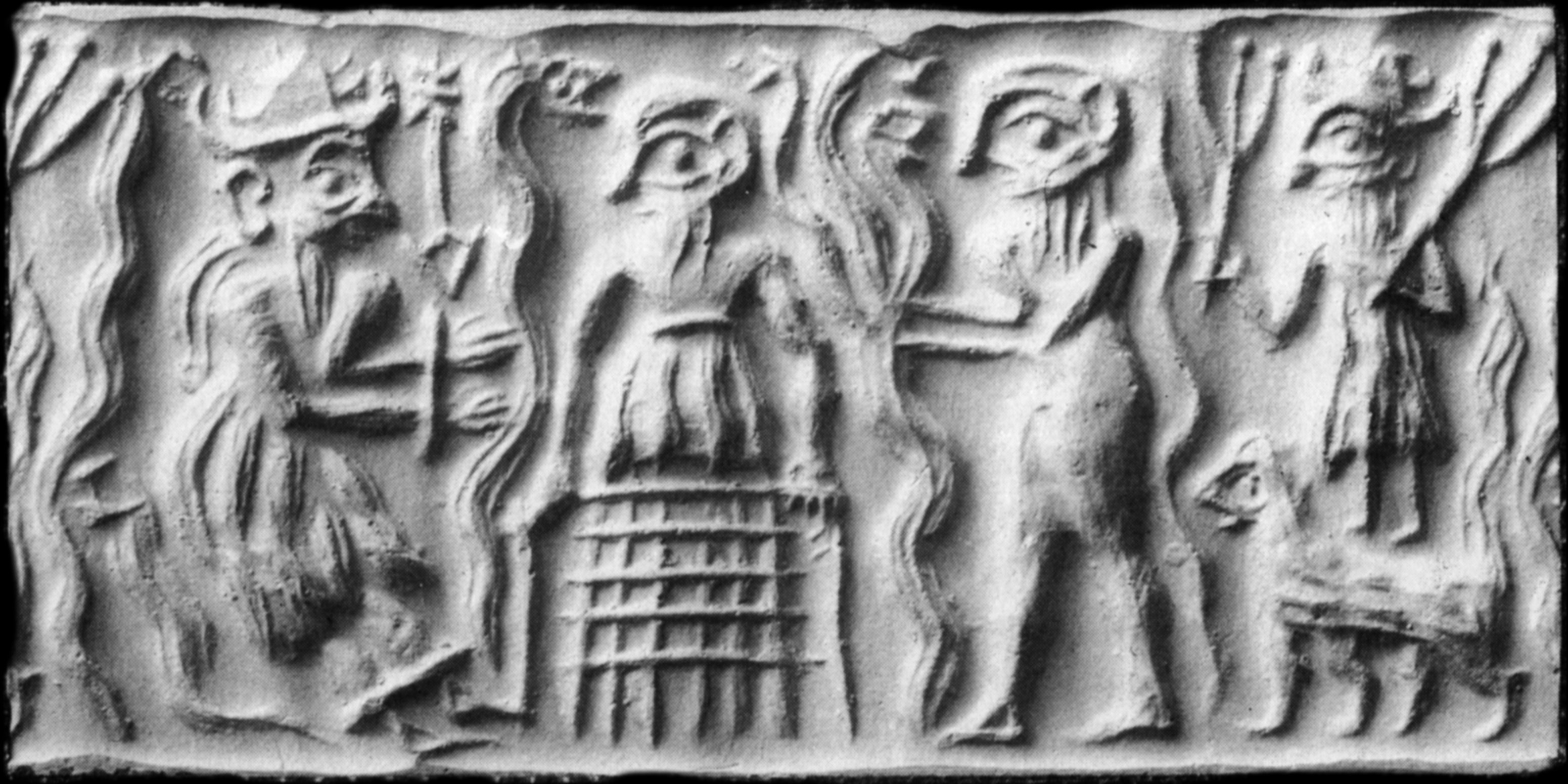 Cylinder seal impression. Probably Dumuzi imprisoned in the underworld. He is flanked by two snakes.